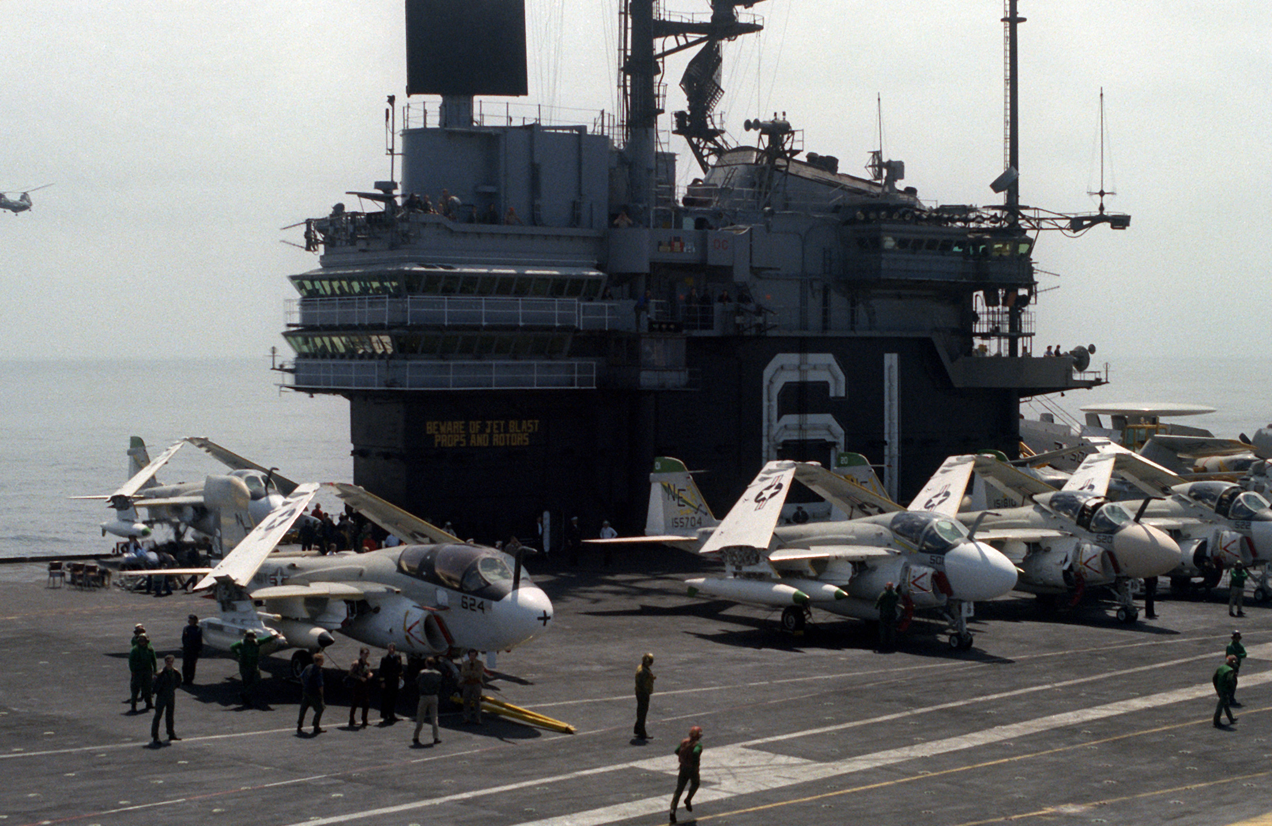 A U.S. Navy Grumman EA-6B Prowler from electonic countermeasures squadron VAQ-137 Rooks ant three A-6E Intruder aircraft from attack squadron VA-145 Swordsmen are lined up on the flight deck of the aircraft carrier USS Ranger (CV-61) in 1980.